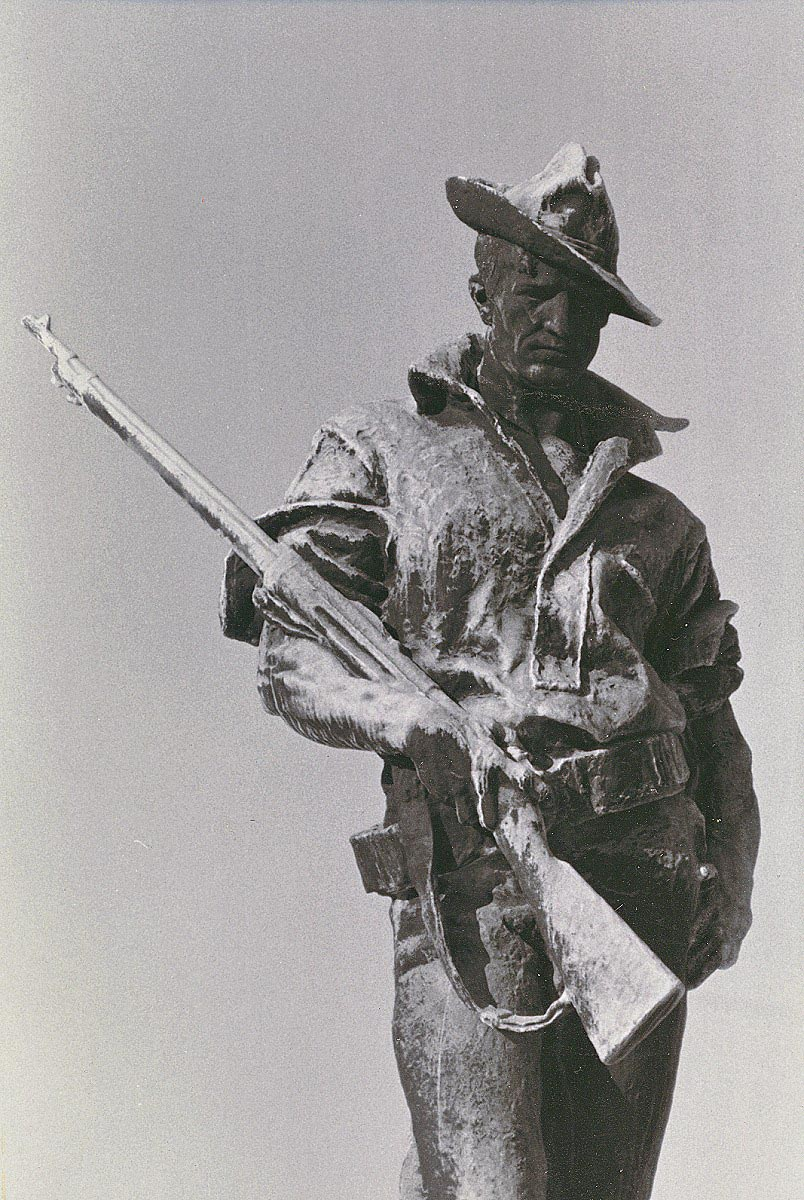 photo taken from "Kvaran, Einar Einarsson, ‘’An Annotated Inventory of Outdoor Sculpture in Washtenaw County’’, Independent Study, Eastern Michigan University, 1989" it is of a statue produced in 1907